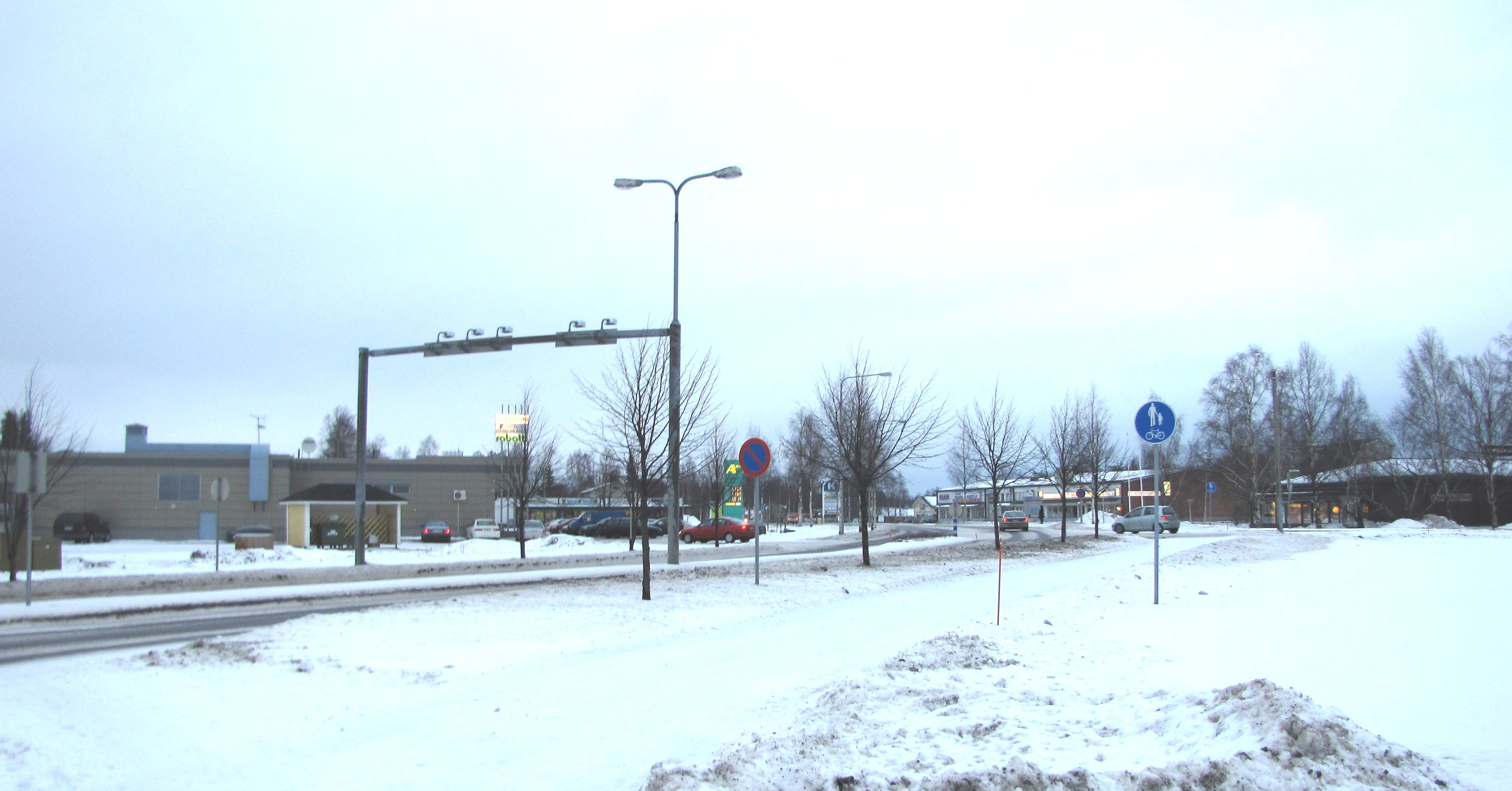 Filppula village in Kauhajoki, Finland.